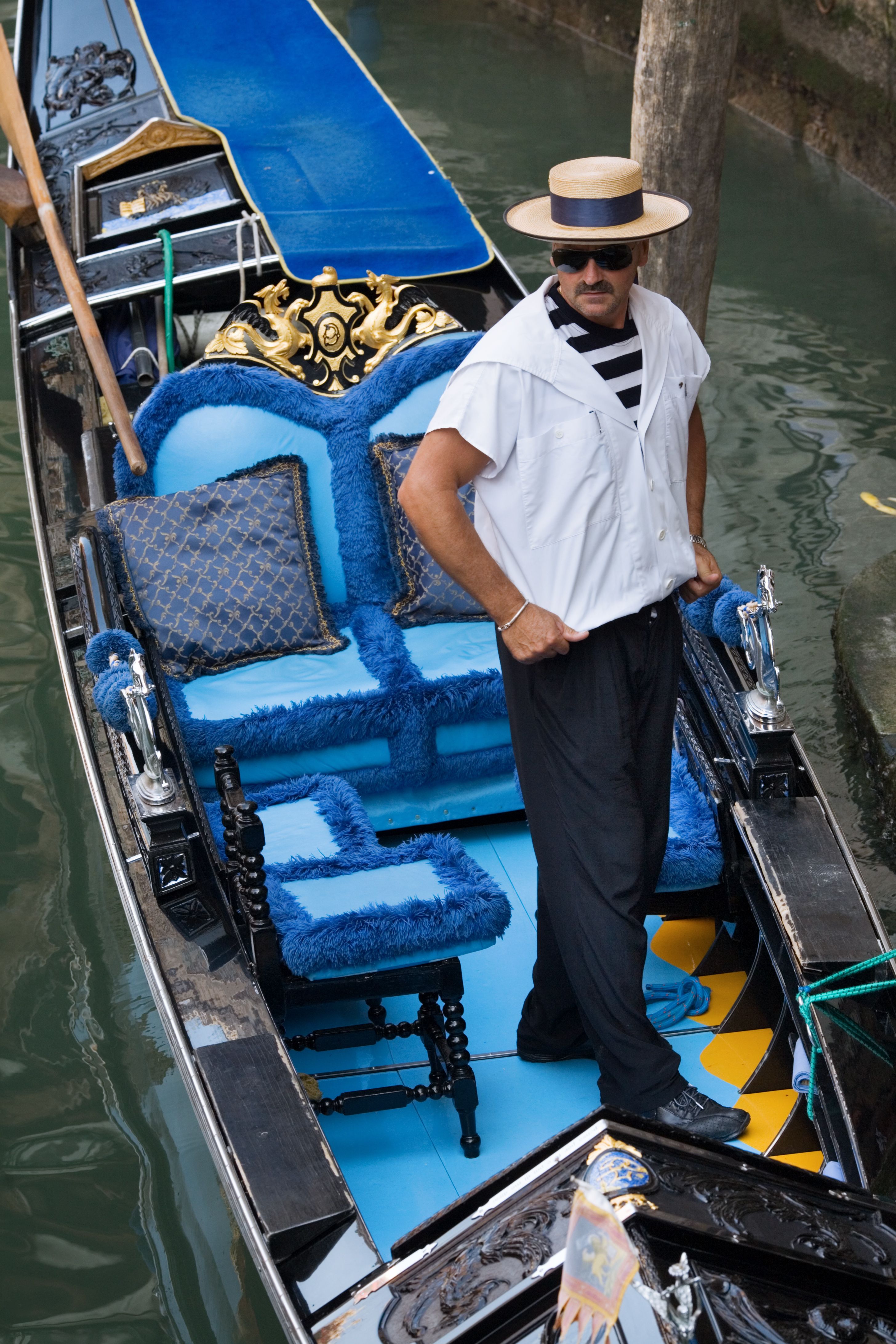 A Gondolier in Venice, Italy 2009